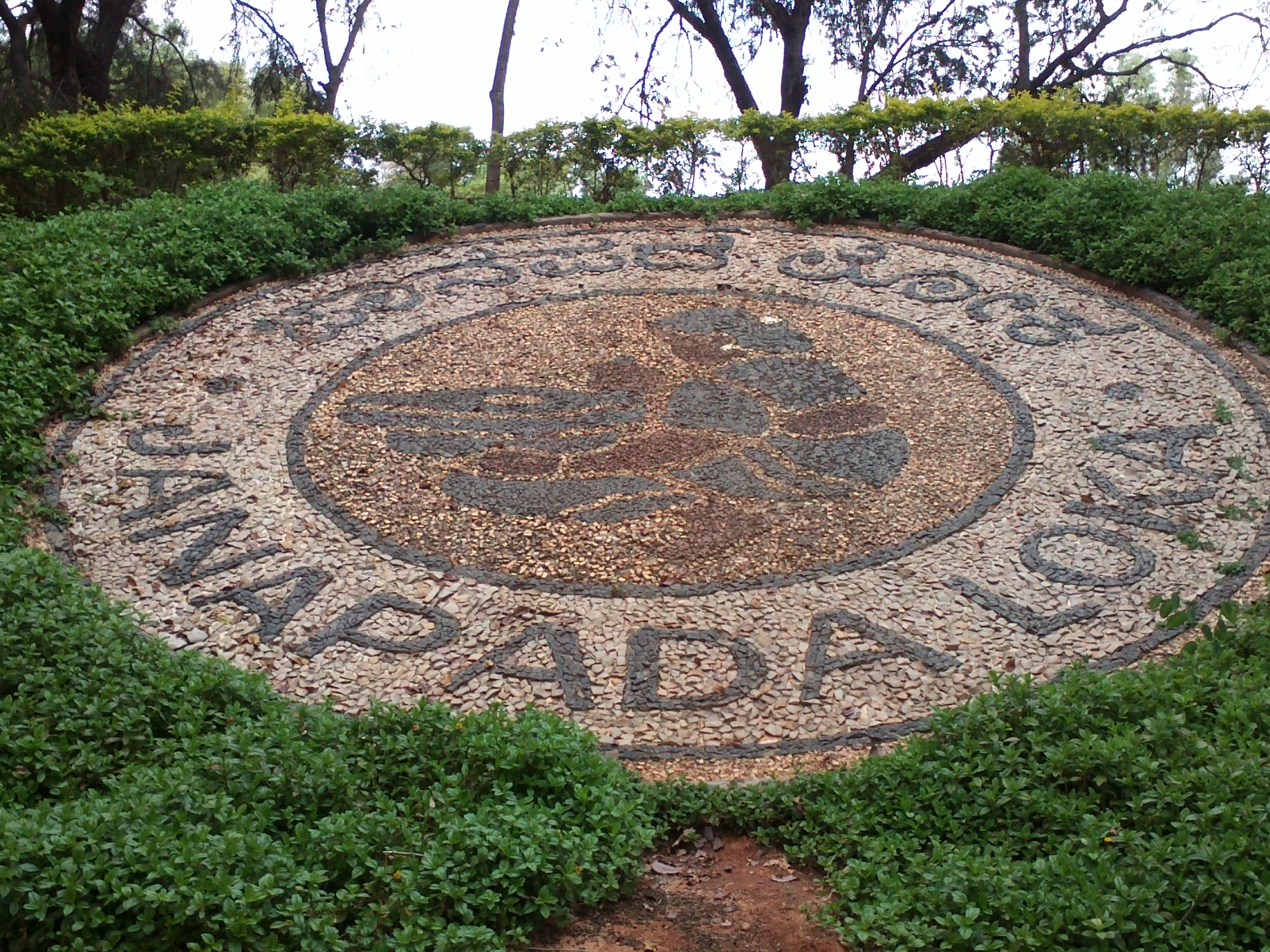 Janapada Loka is an institution that is dedicated to preserving and propagating the rural folk culture of Karnataka.